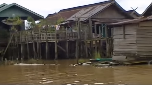 House on Kumai river of Central Kalimantan